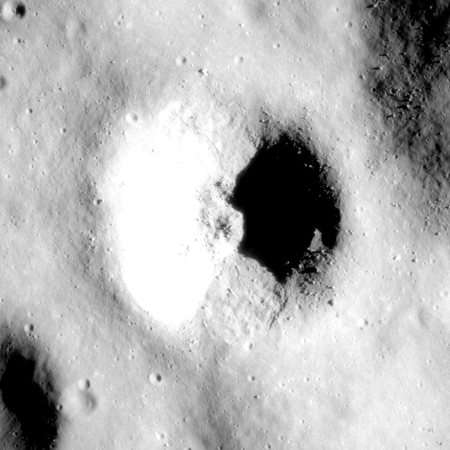 North Ray crater, on the moon. Sun elevation 27 deg., spacecraft altitude 114 km.